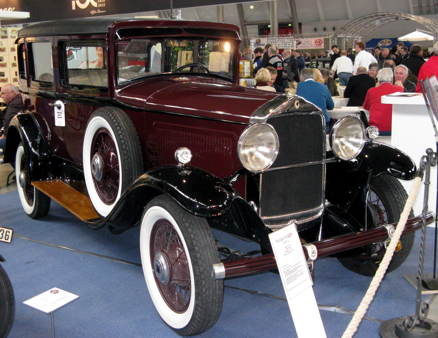 1930 Willys-Knight 87 B